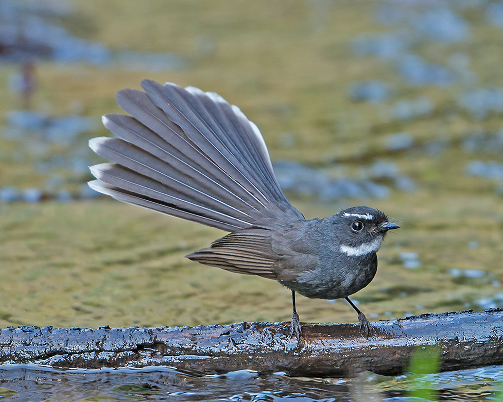 A White-throated Fantail at Sattal, Uttarakhand, India.